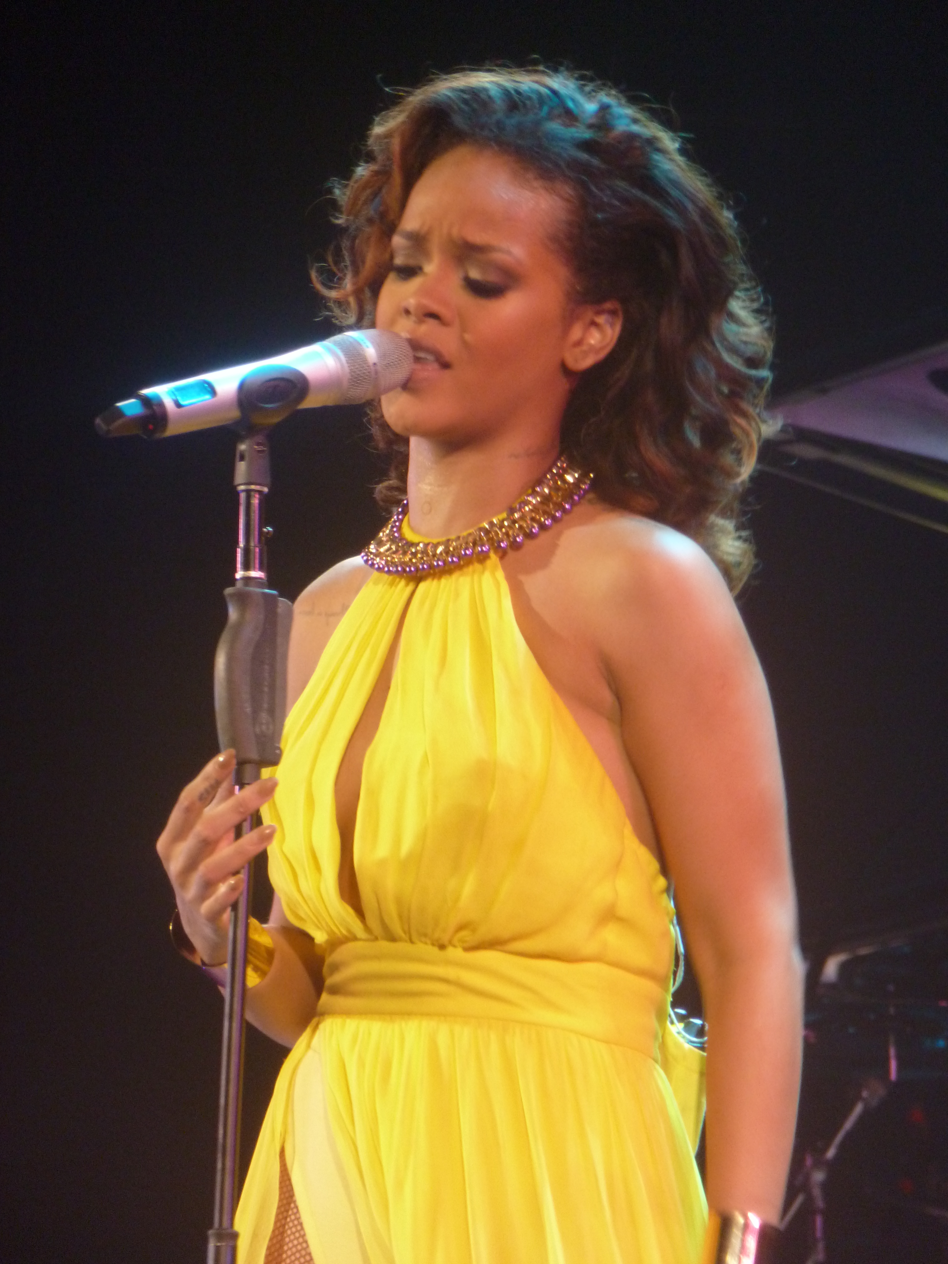 Live In Paris - Paris Bercy 2011